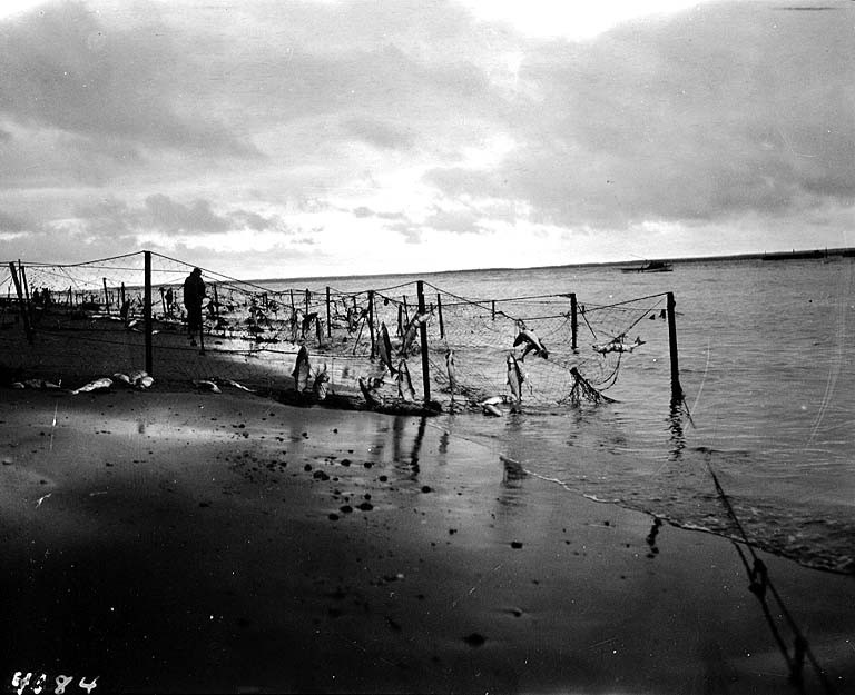 From John Cobb field notebook: Native set nets (J.) 1917 Subjects (LCTGM): Eskimos--Subsistance activities Subjects (LCSH): Fishing--Alaska--Egegik; Fish traps--Alaska--Egegik